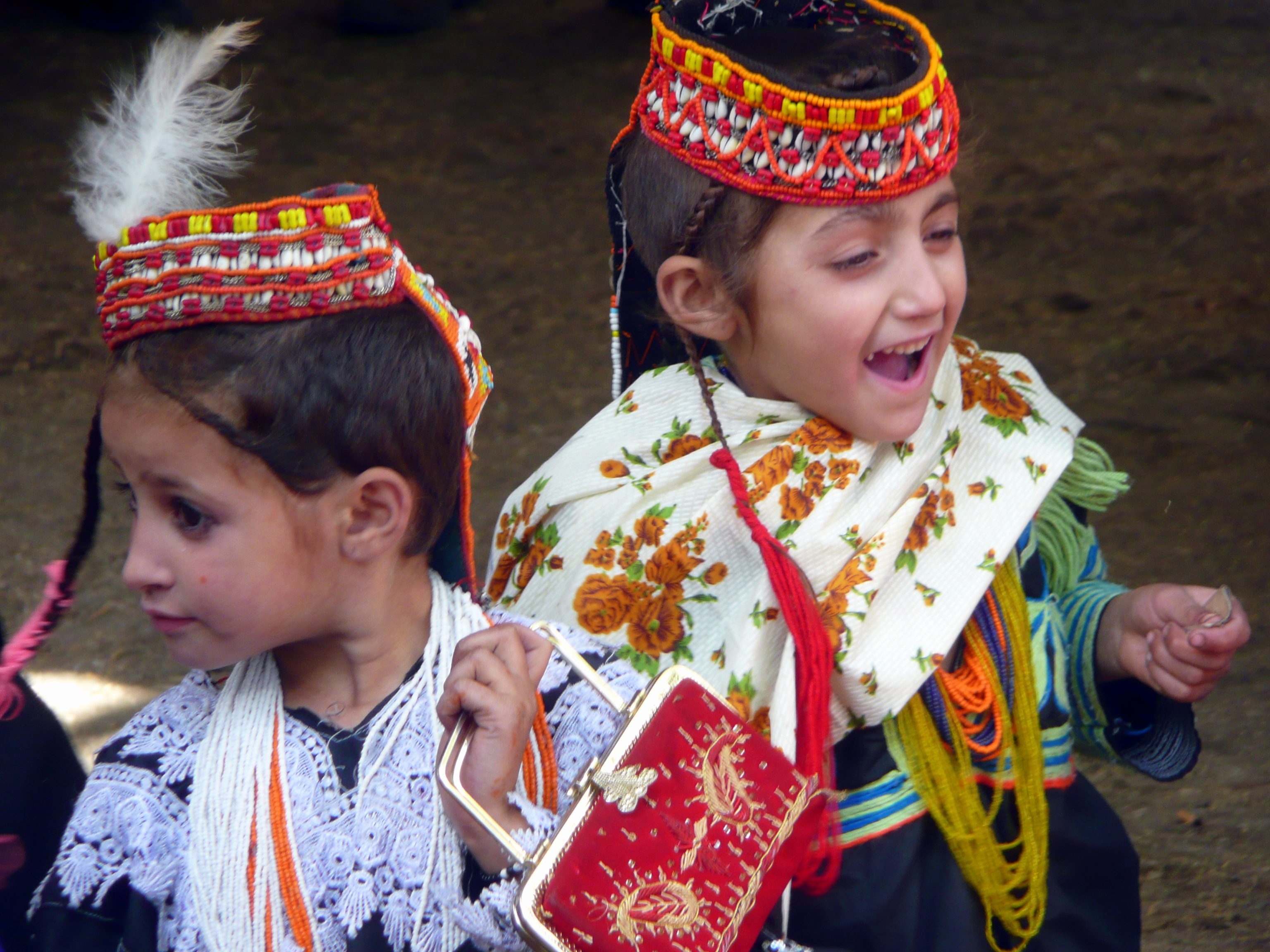 Small Kalasha girls